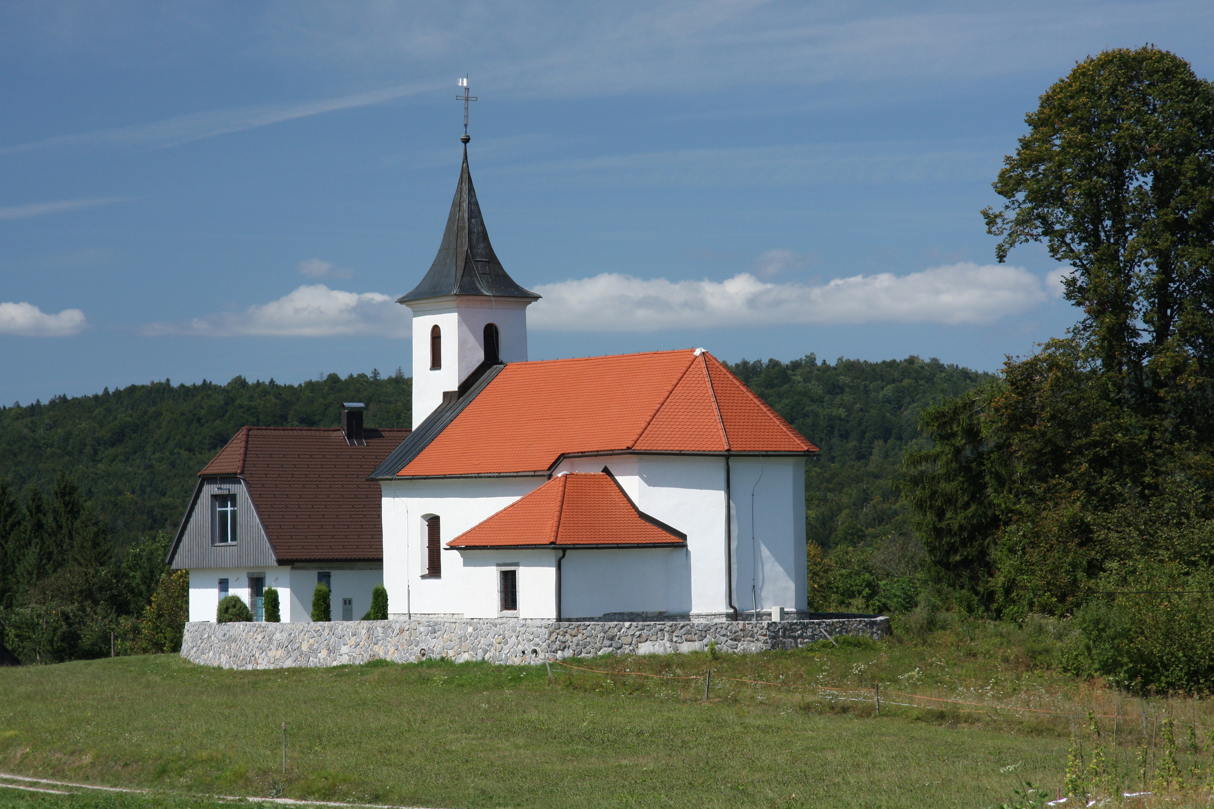 St. Michael church in Jakovica, Logatec municipality, Slovenia